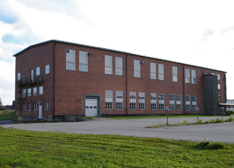 Sandvik sawmill. The last sawing building was built in 1950. The timber was taken into the building from the left. After the closing of the mill in 1962 the building has been used for education.